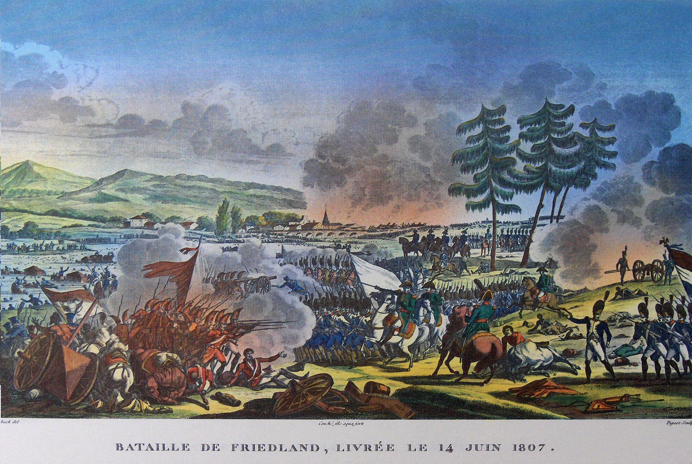 "Battle of Friedland" colored litho by Antoine Charles Horace Vernet (called Carle Vernet)(1758 - 1836) and Jacques François Swebach (1769-1823)